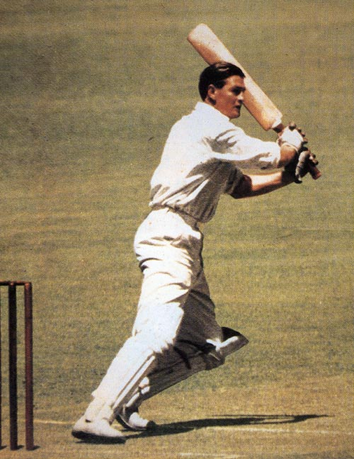 Keith Miller playing a cut shot